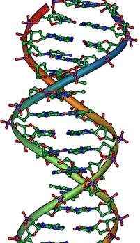 Derived from: File:DNA Overview2.png